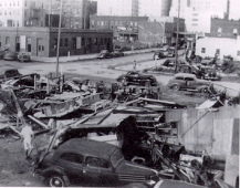 Wind damage in Galveston, Texas in the aftermath of the 1943 Surprise hurricane.